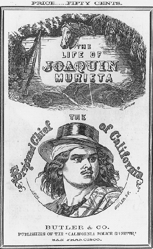 Cover of 1859 edition of The Life of Joaquin Murieta, the Brigand Chief of California. (Courtesy of the Bancroft Library, University of California)